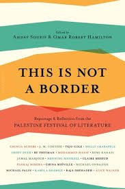 Cover of the US edition of This Is Not a Border: Reportage & Reflection from the Palestine Festival of Literature